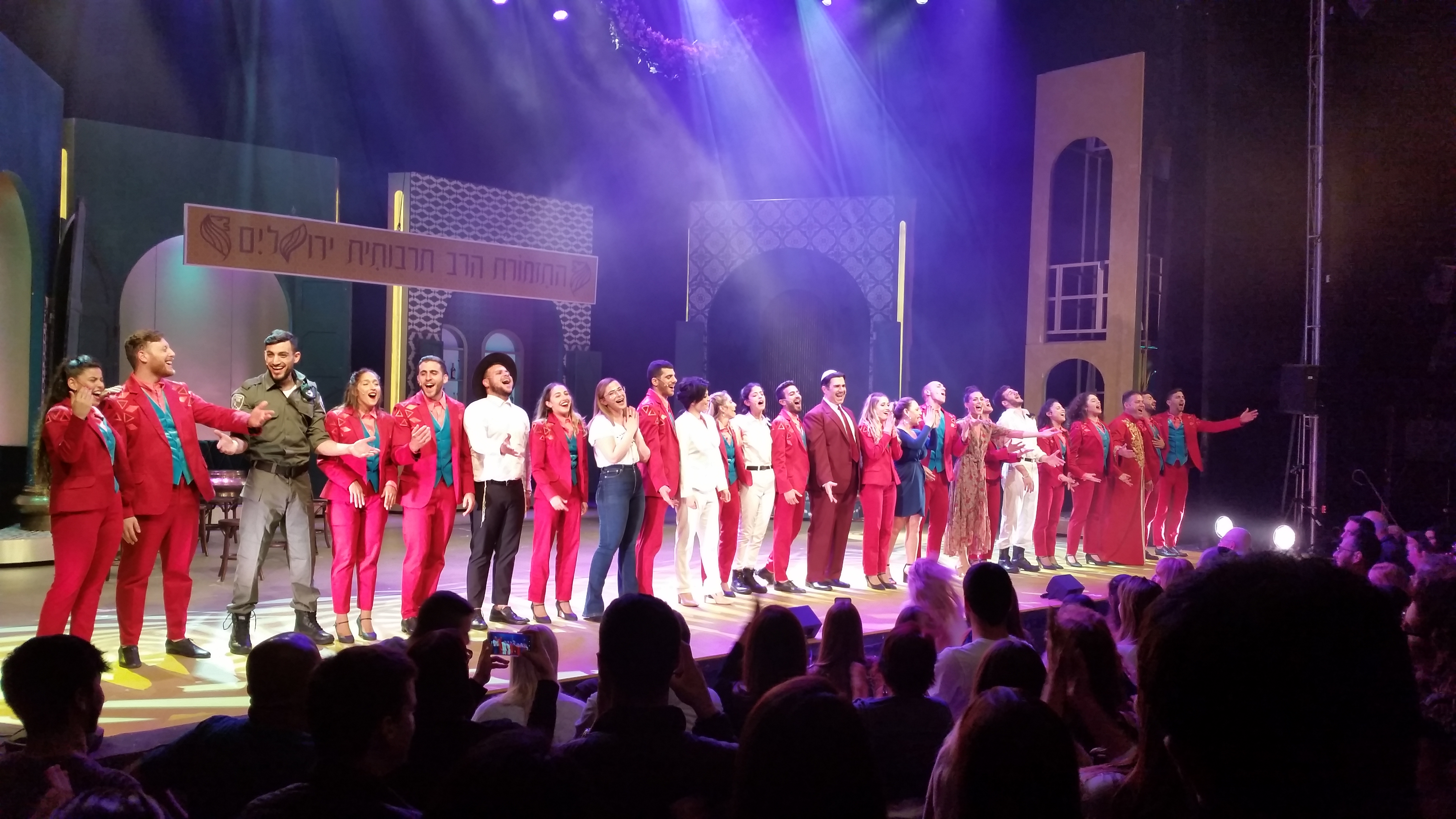 Ze Ani - Musical based on songs by Eyal Golan